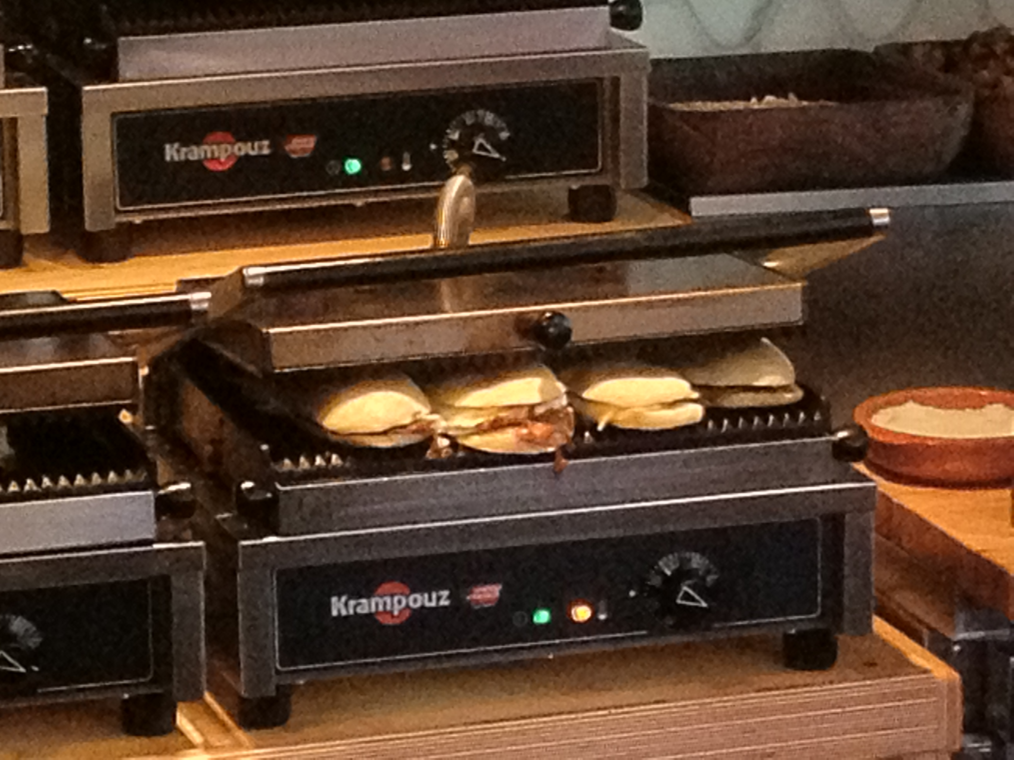 4 panini sandwiches cooked at a Montreal cafe, in a Krampouz professional cast-iron Multi-Contact Panini Grill.